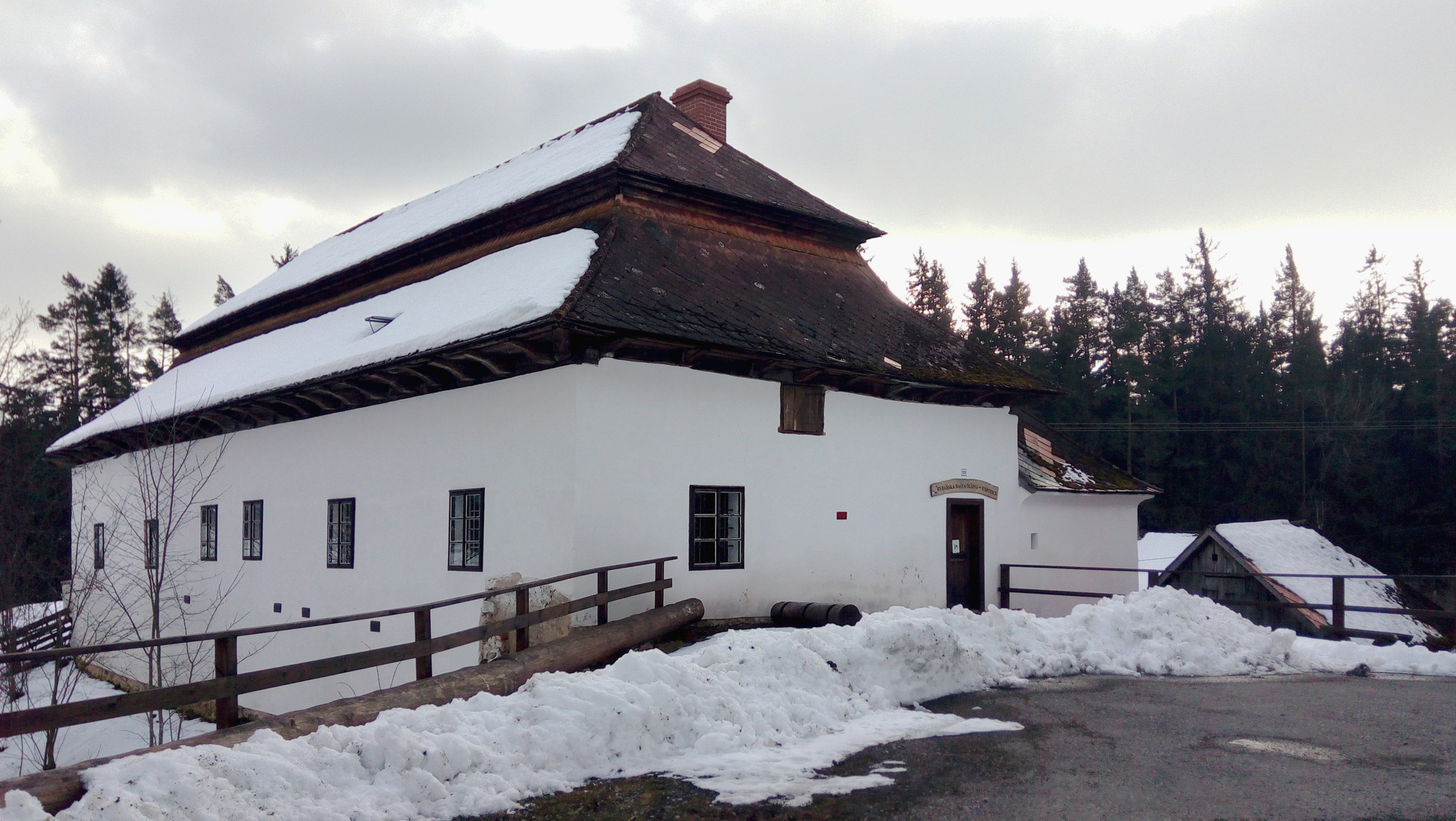 House at Olšina, a pond in Český Krumlov District, South Bohemian Region, Czechia.